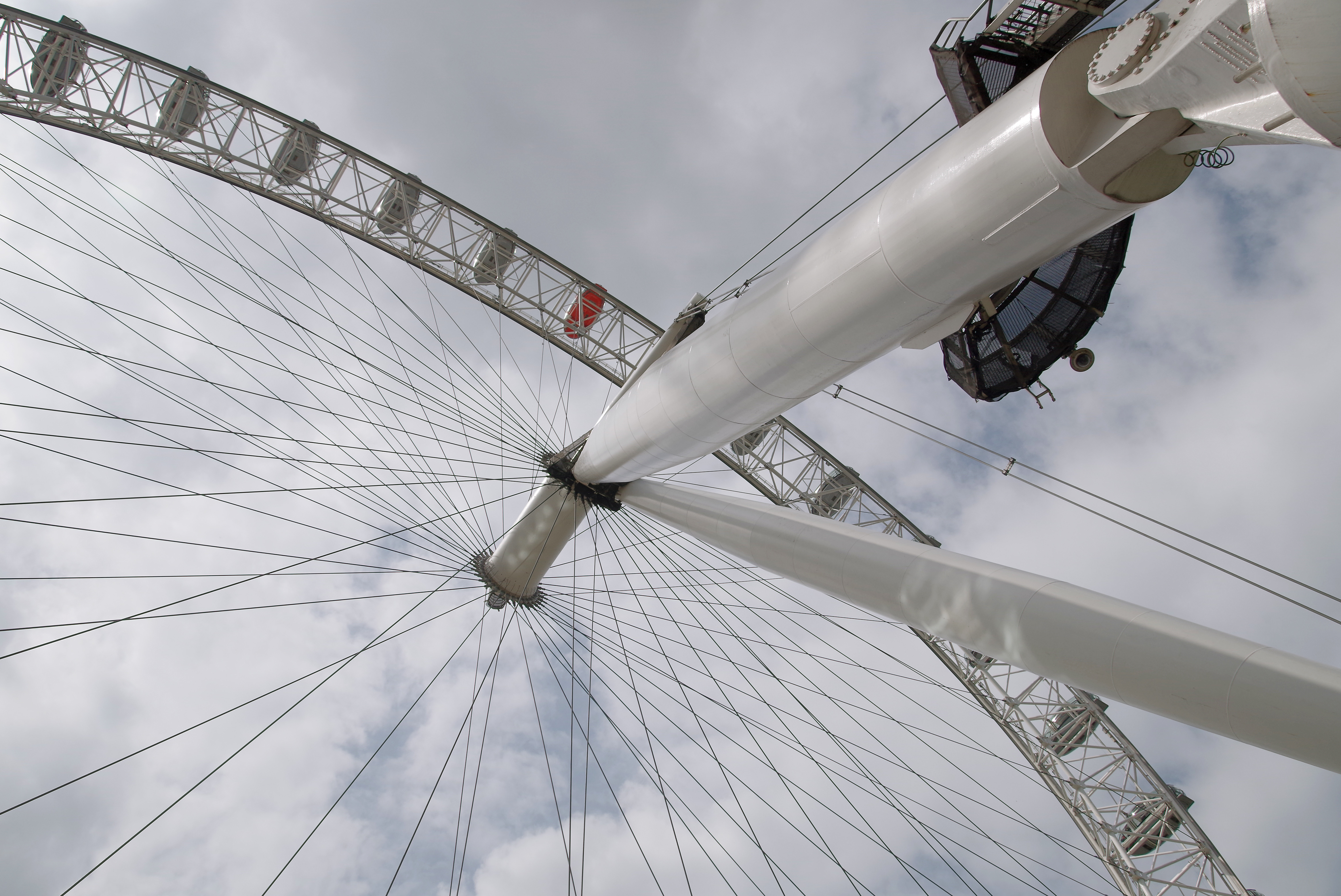 Looking up at the London Eye from the banks of the Thames.